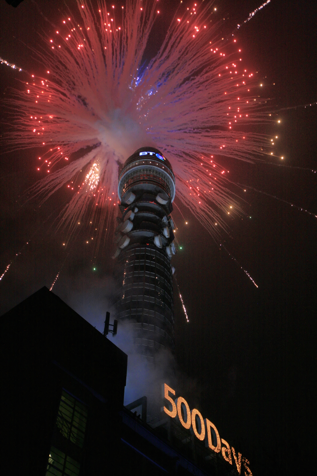 BT Tower (London) seen during a firework display that took place 500 days before the start of the London 2012 Olympic Games